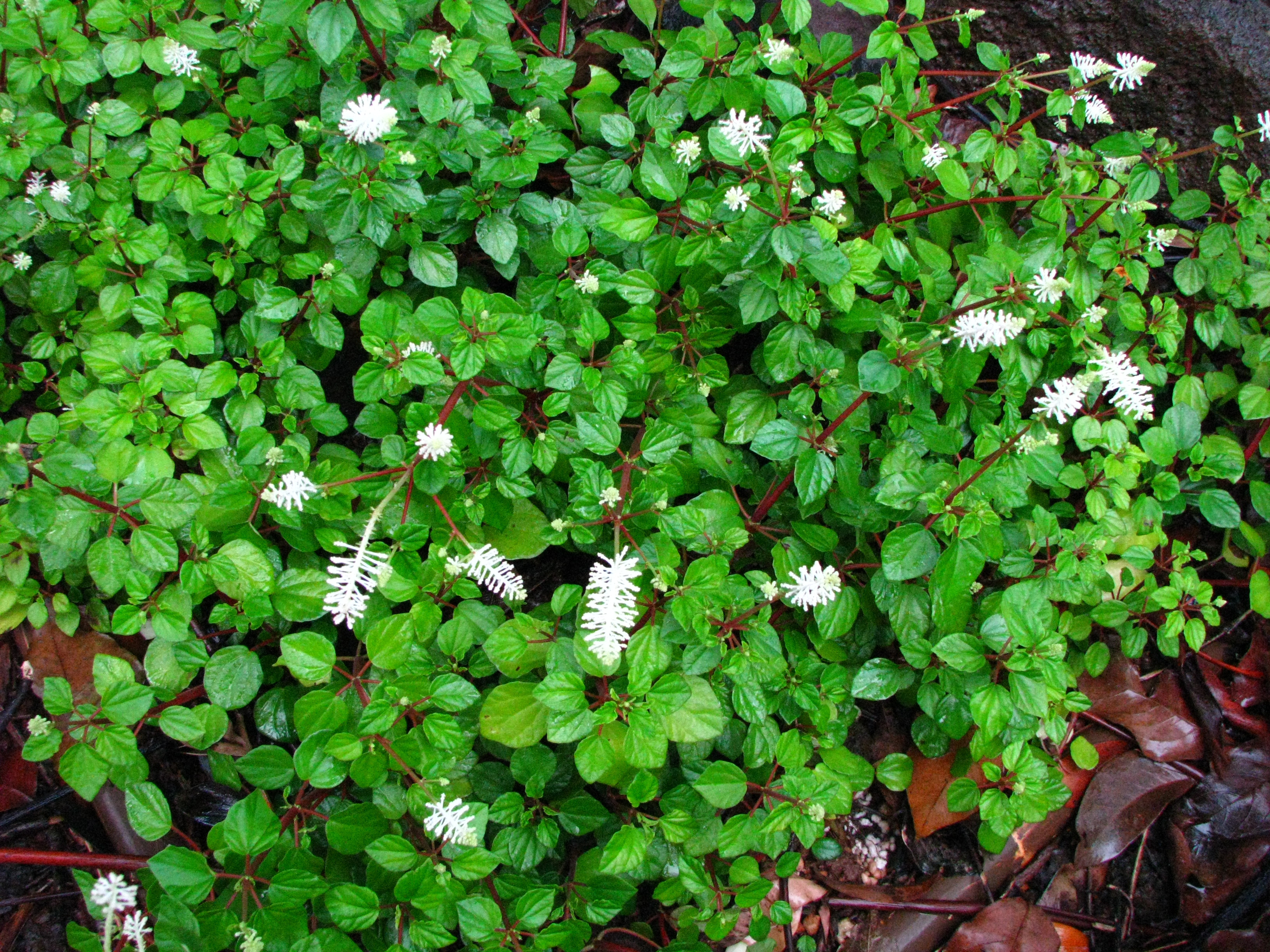 [Syn. Peperomia resediflora] Flowering peperomia Piperaceae Native to Ecuador Oʻahu (Cultivated)